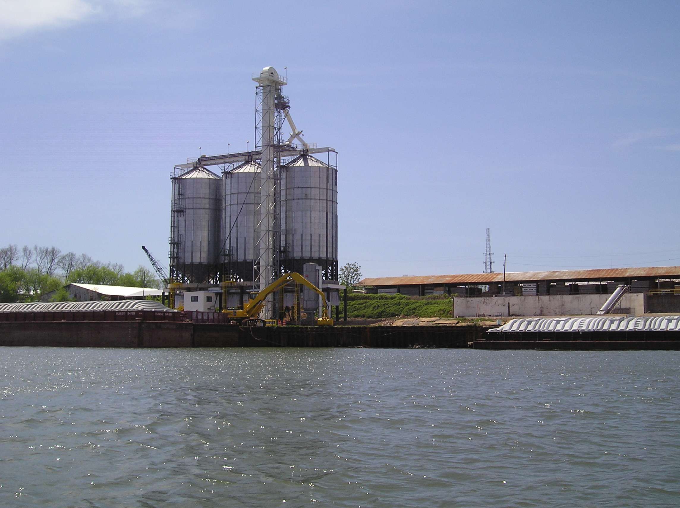 Picture of the Port of Decatur in Alabama.